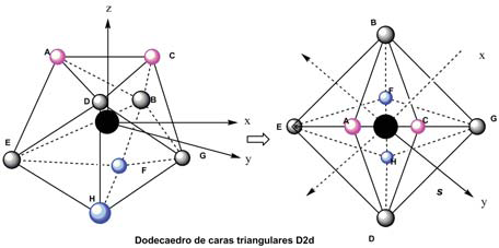 Complex, tricapped tetraedrhal,schematics